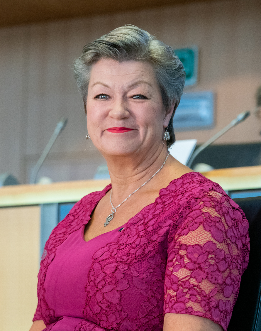 Before the European Parliament can vote the new European Commission led by Ursula von der Leyen into office, parliamentary committees will assess the suitability of commissioners-designate. On 23-26 May, more than 200,000,000 people in 28 EU countries went to the polls to elect members of the European Parliament, giving them a strong democratic mandate, including voting into office the new European Commission and examining the competencies and abilities of its commissioners-designate. Elected members of the European Parliament will also listen to their ideas and will assess their willingness to take concrete actions on the issues that Europeans care about. Each candidate commissioner is invited for a live-streamed, three-hour hearing in front of the committee or committees responsible for their proposed portfolio. The hearings will take place between Monday 30 September and Tuesday 8 October. This photo is free to use under Creative Commons license CC-BY-4.0 and must be credited: "CC-BY-4.0: © European Union 2019 – Source: EP". No model release form if applicable. For bigger HR files please contact: webcom-flickr(AT)